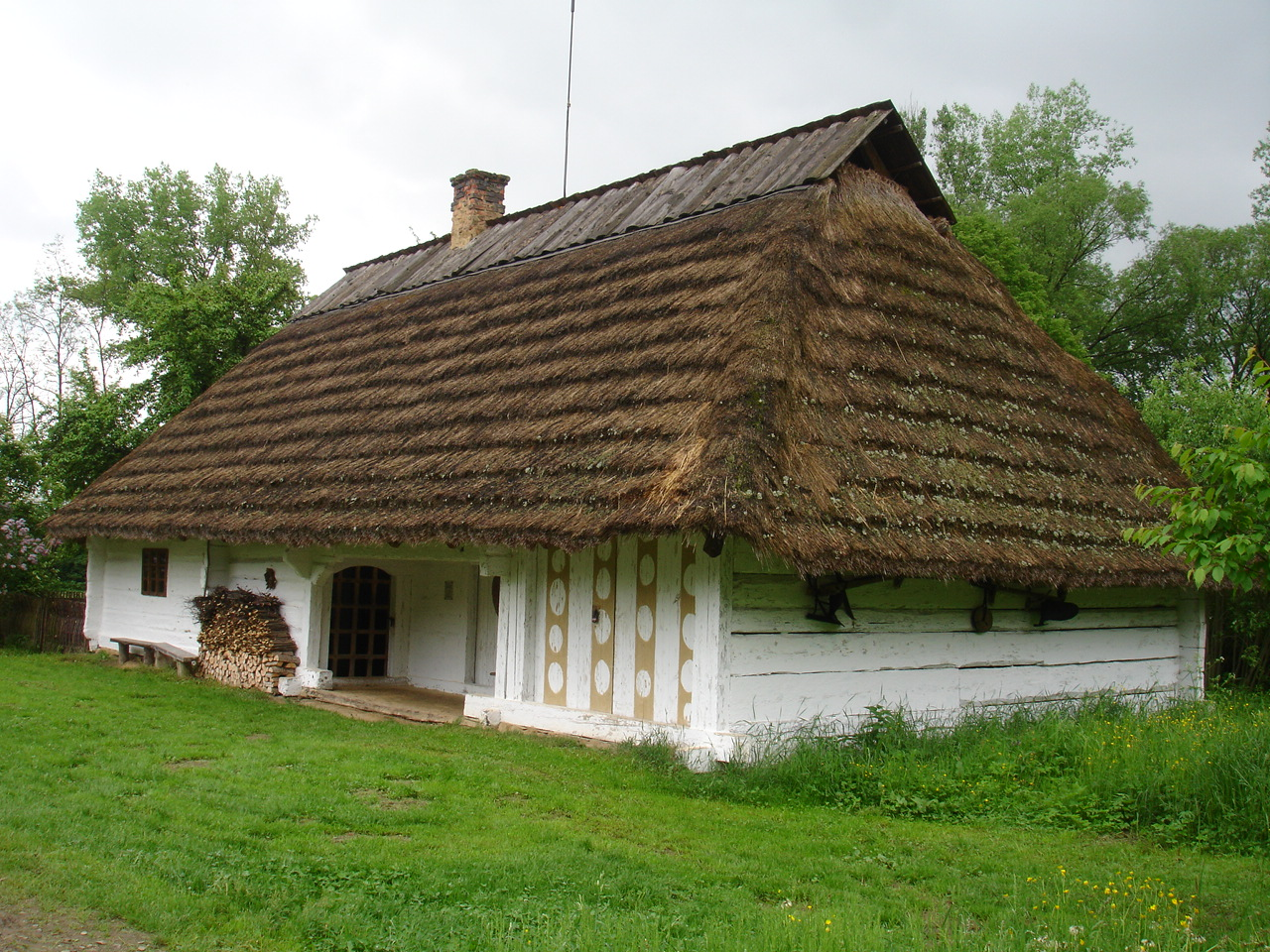 a hut from Posada Olchowska (part of Sanok) about 1880, object exists in a Sanok_Skansen